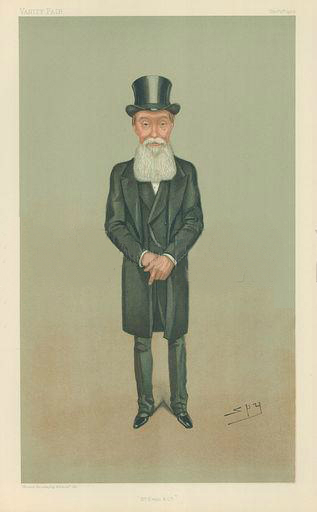 Men of the Day No.0860: Caricature of Mr William McEwan. Caption reads: "McEwan & Co."